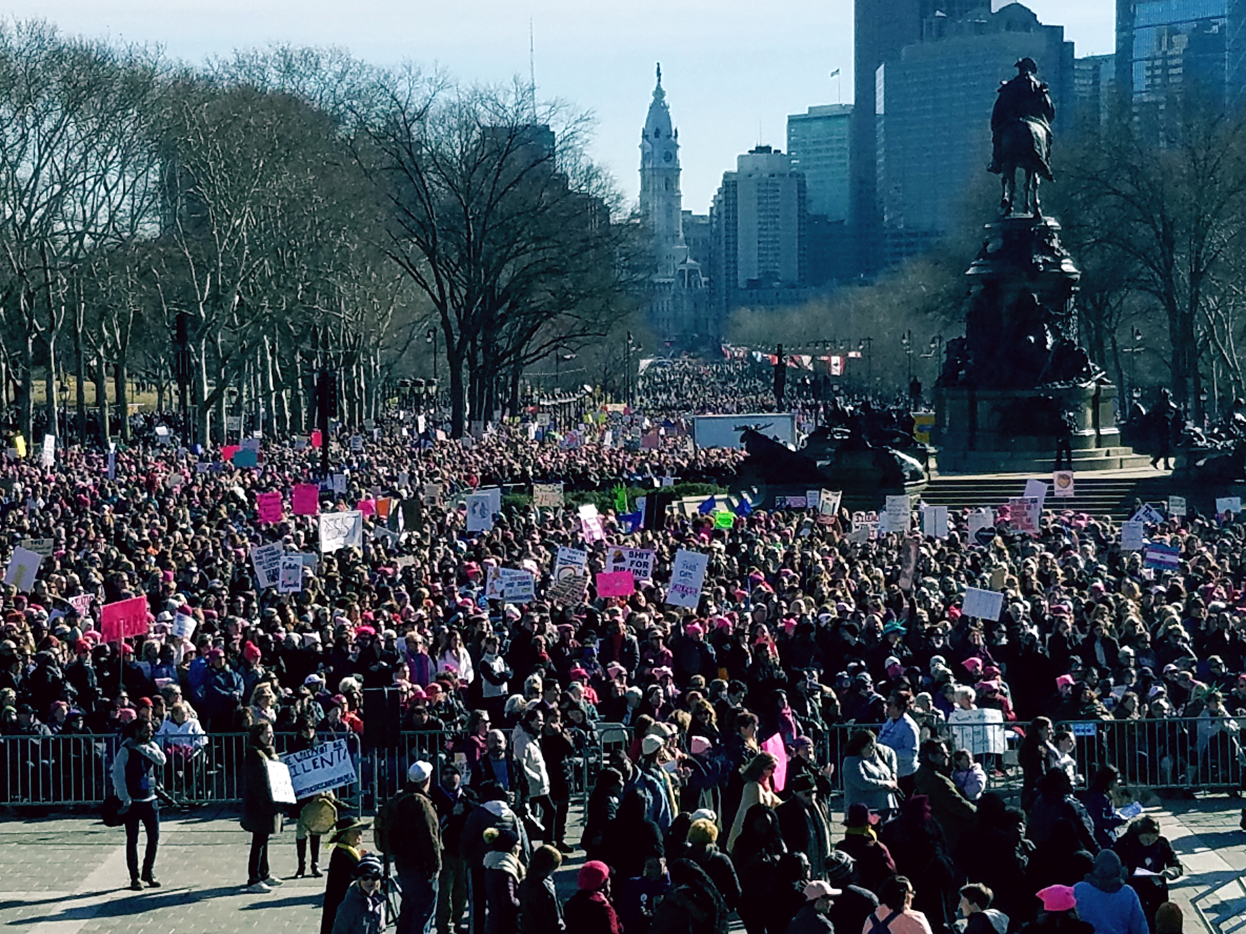 womensmarch2018 Philly Philadelphia #MeToo